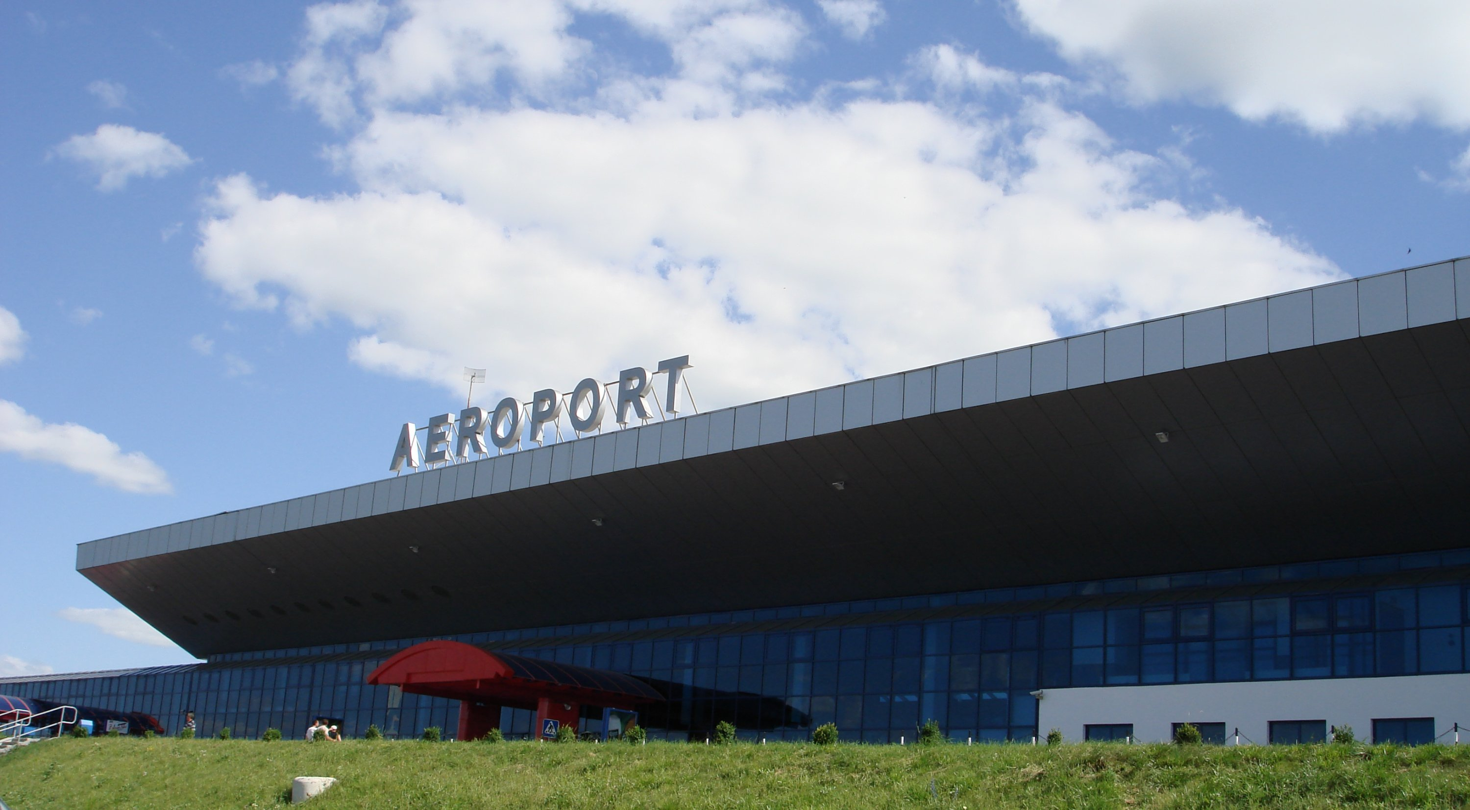 Chisinau International Airport